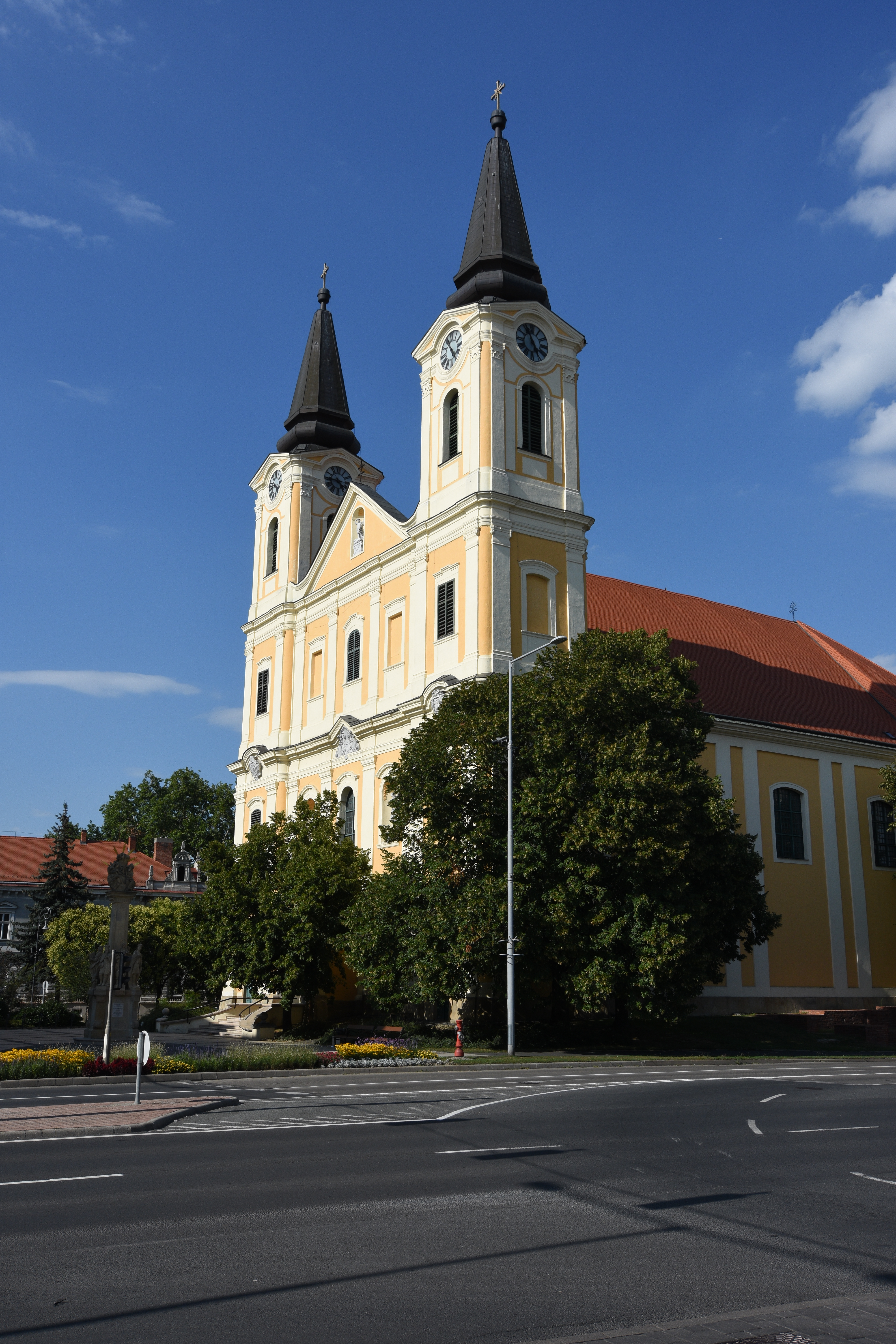 Mary Magdalene church in Zalaegerszeg